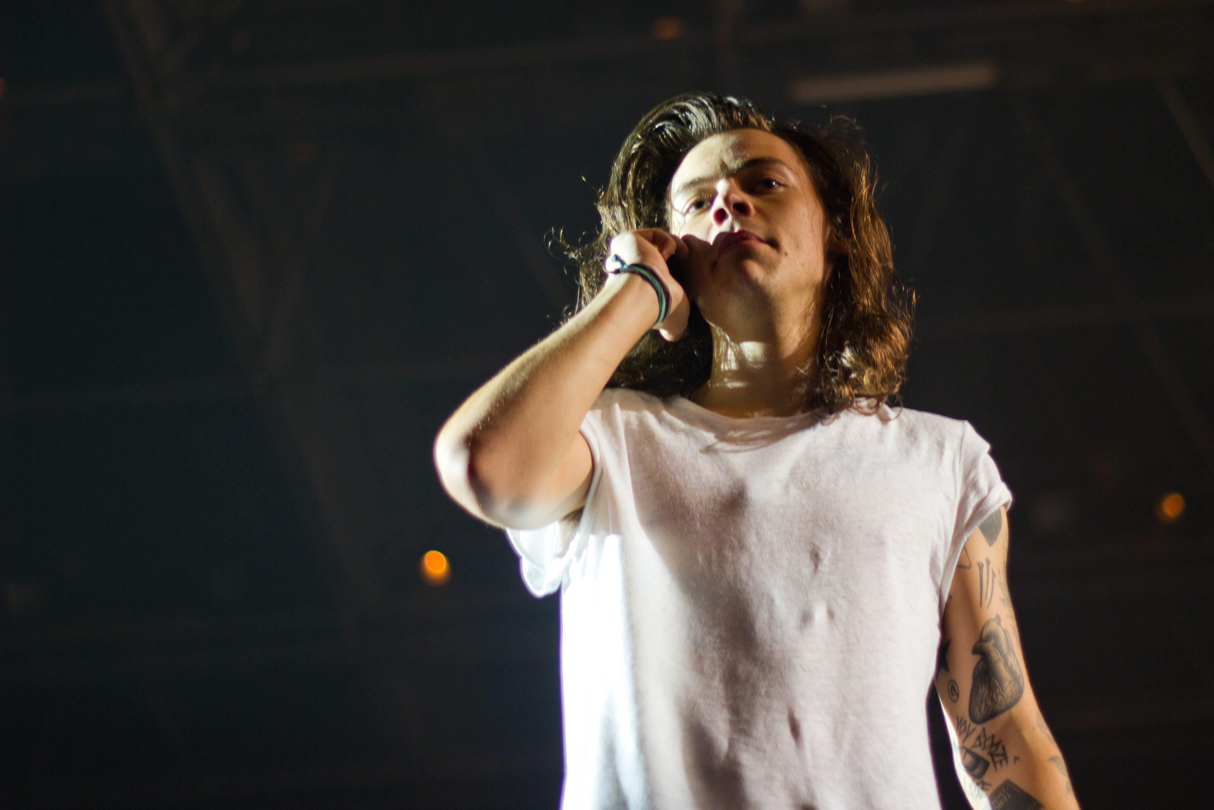 One Direction - On The Road Again (Birmingham)